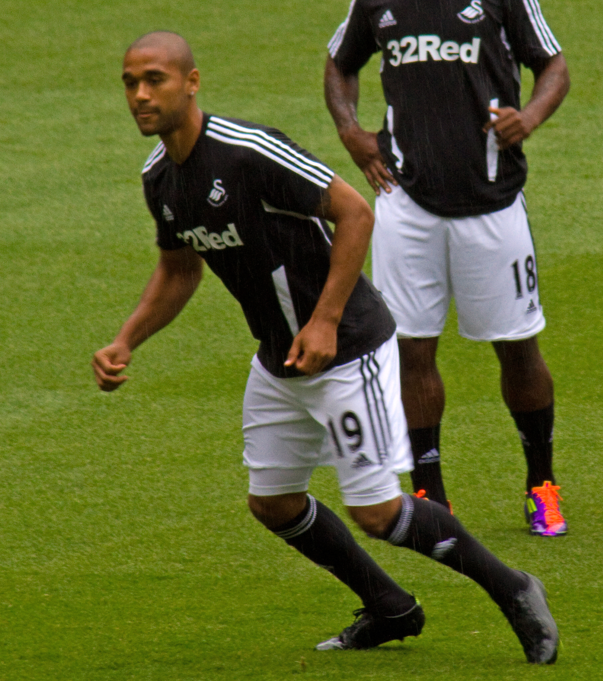 Luke Moore, Leroy Lita and Stephen Dobbie of Swansea warming up before a match against Arsenal